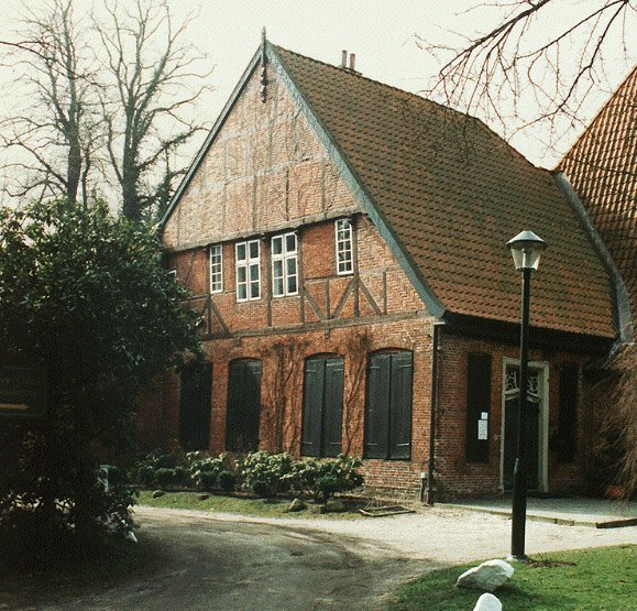 Monastery, house of the prioress, Uetersen (Germany), photo 1995